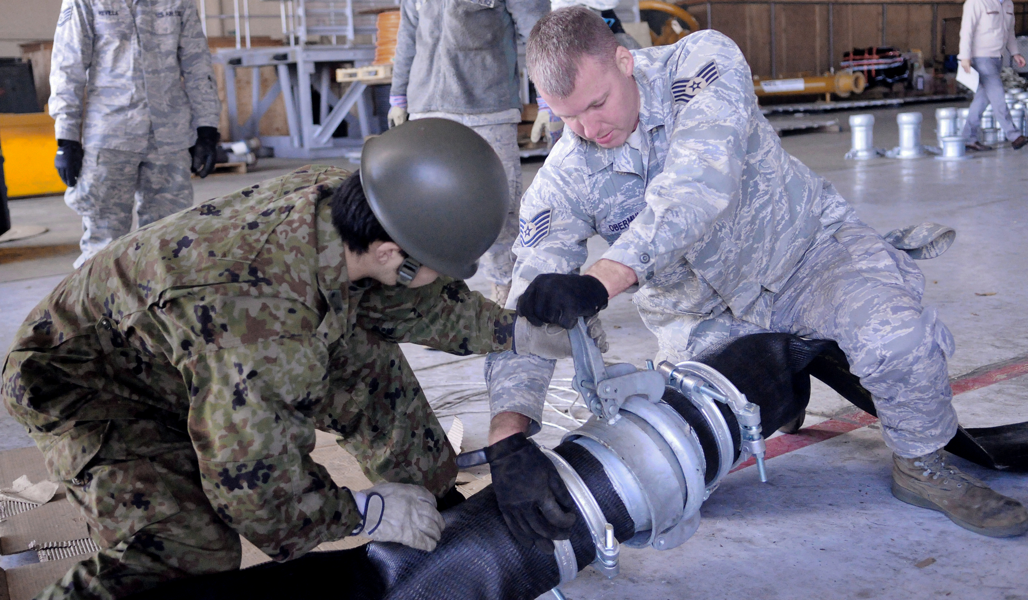 Tech. Sgt. John Obermuller and a Japan Ground Self-Defense Force member join two sections of hose March 26, 2011, at Yokota Air Base, Japan. The hoses are part of water pump donated by the U.S. government to help the Japanese government stabilize the Fukushima nuclear power plant. Obermuller is assigned to the 374th Maintenance Squadron. (U.S. Air Force photo/Airman 1st Class Krystal M. Garrett)